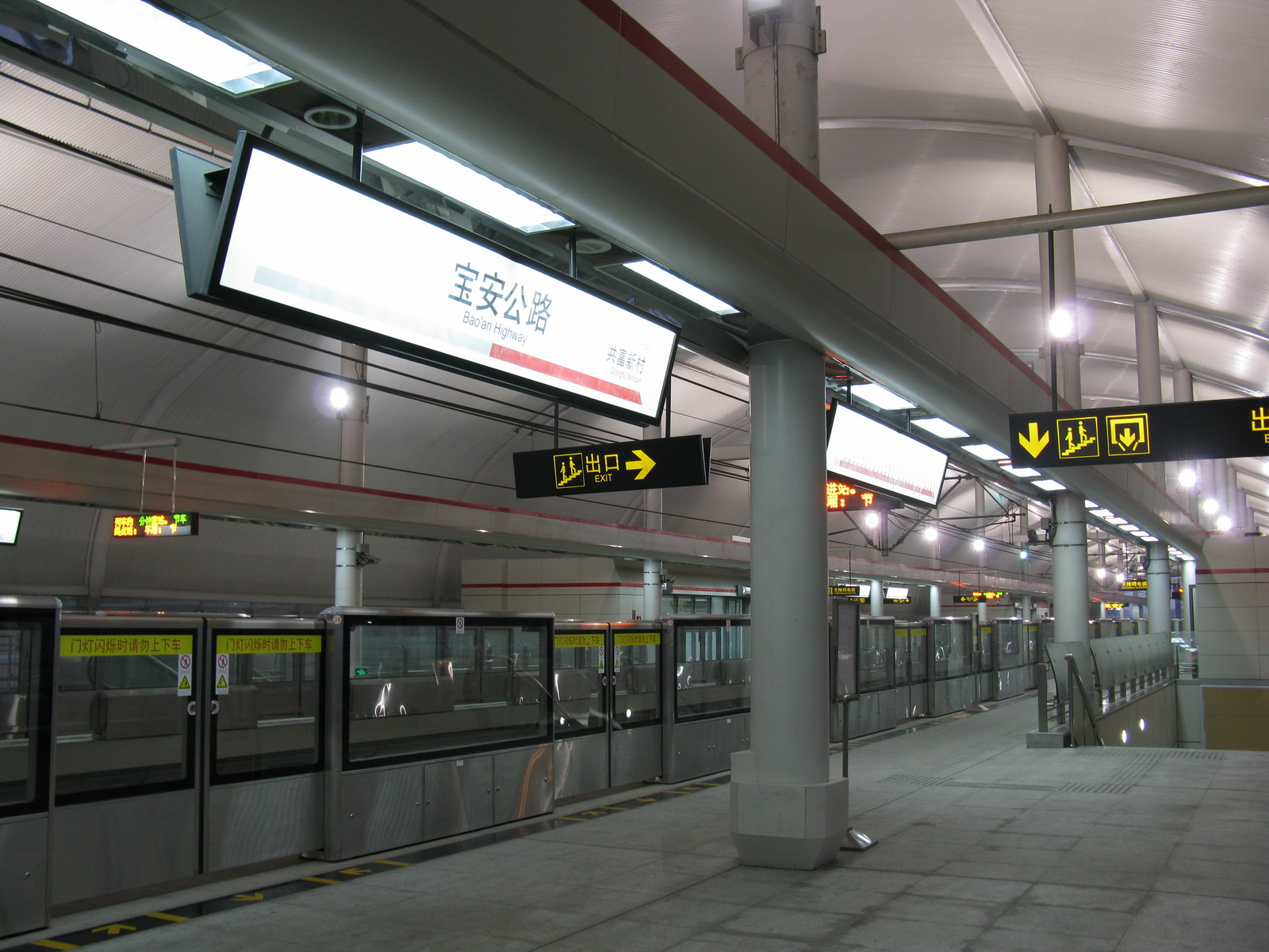 寶安公路站-1號線月台 Line 1 Platform of Bao'an Highway Station